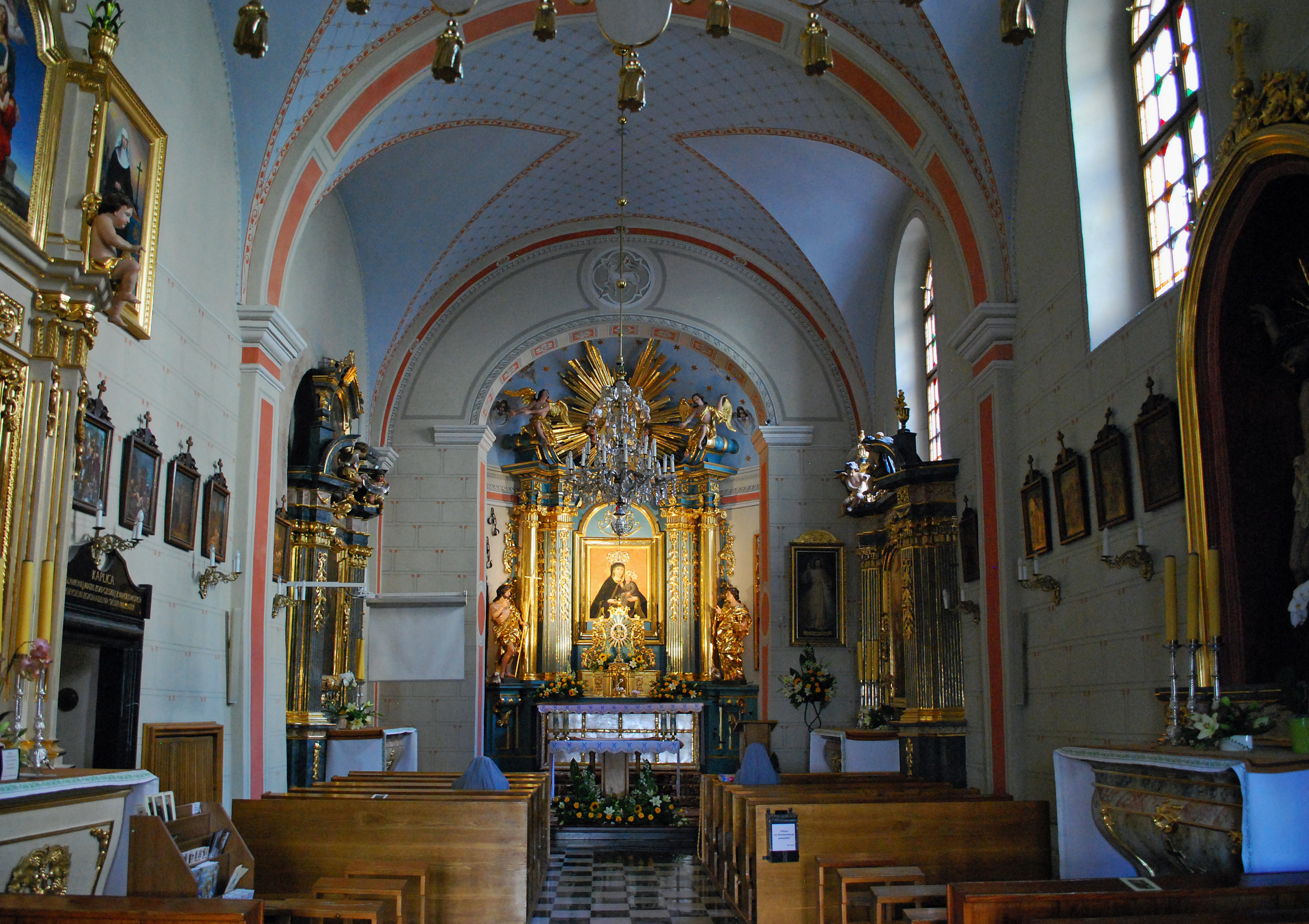 Church of StJohn the Baptist and StJohn the Evangelist (inside), 7 sw. Jana street,Old Town,Krakow,Poland